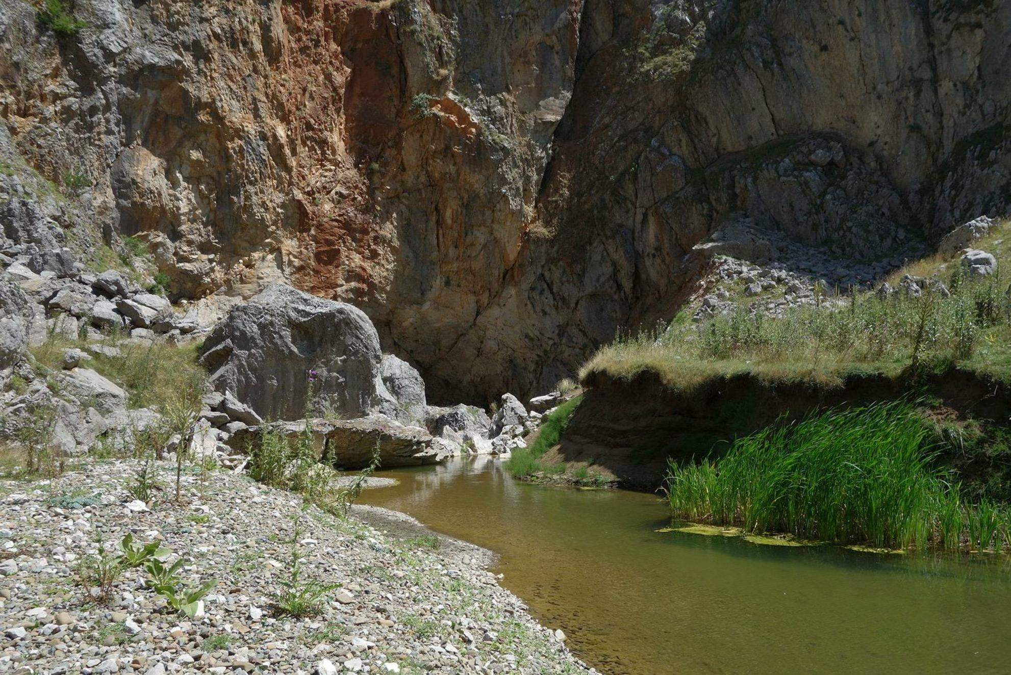 Vali Cave, Val-Bizë, Tiranë county, Albania